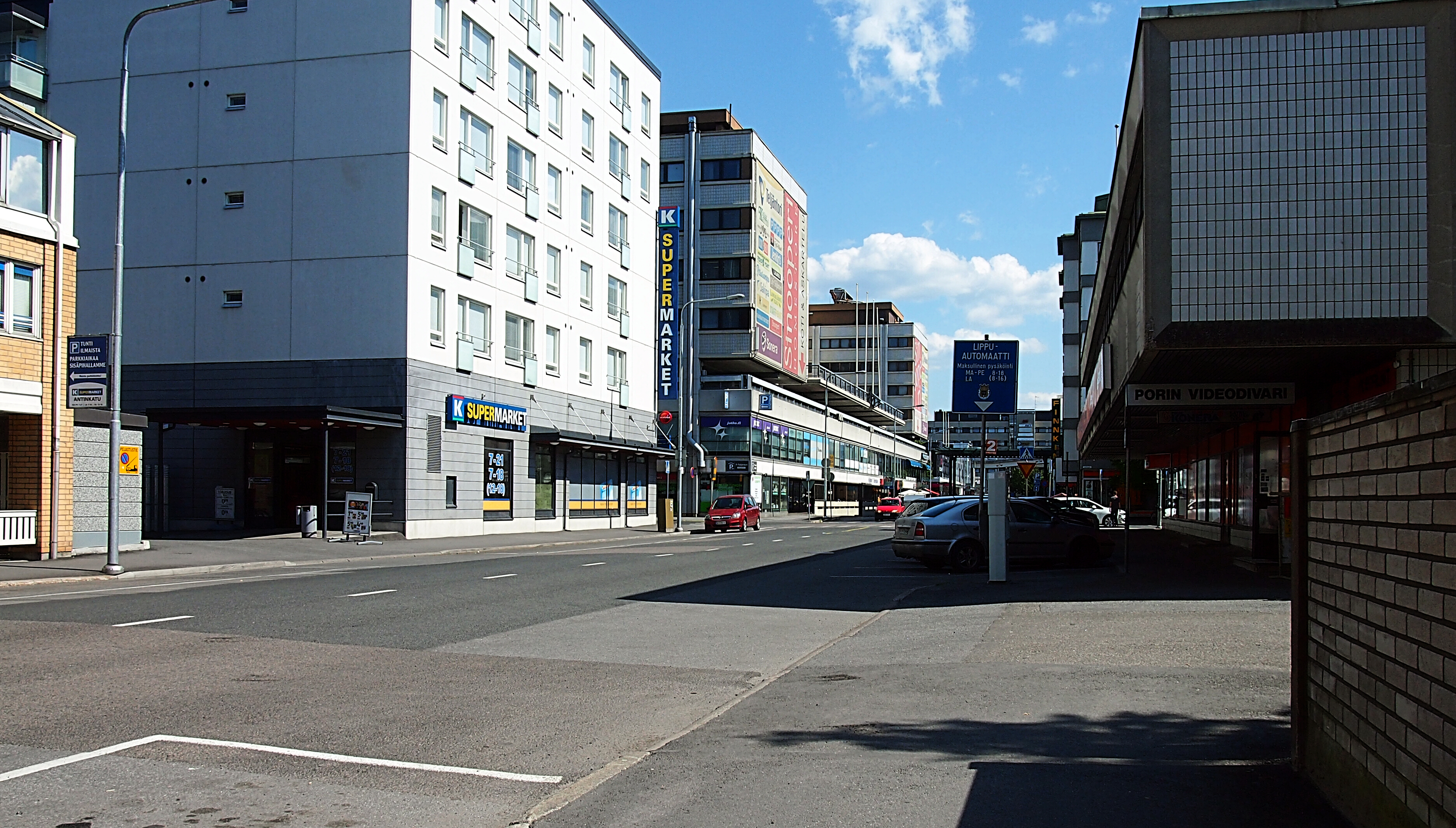 A street view in Pori, Finland, July of 2014.